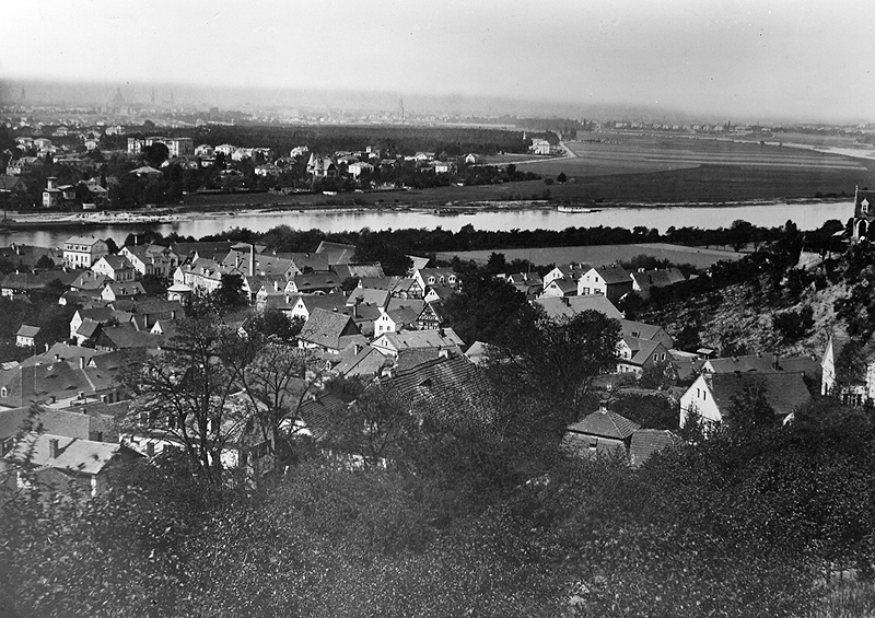 View from Oberloschwitz over Loschwitz and Blasewitz to Dresden.